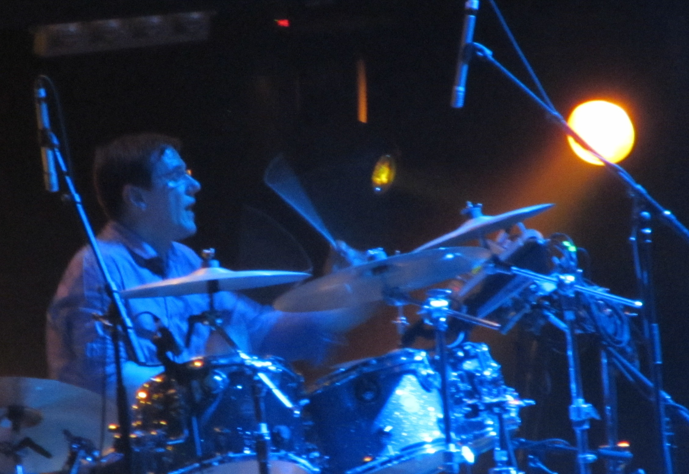 Drummer Stephen Morris performing with New Order in 2012.